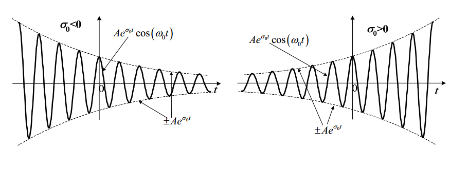 Figura 6. Eksponenciali kompleks